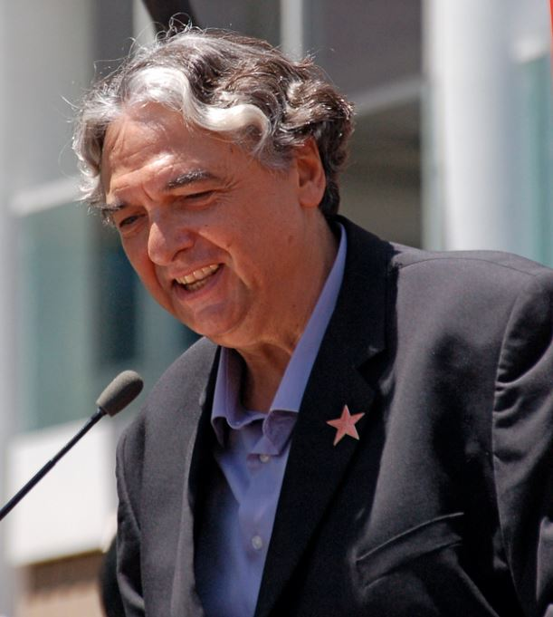 Gregory Nava at a ceremony for Jennifer Lopez to receive a star on the Hollywood Walk of Fame.